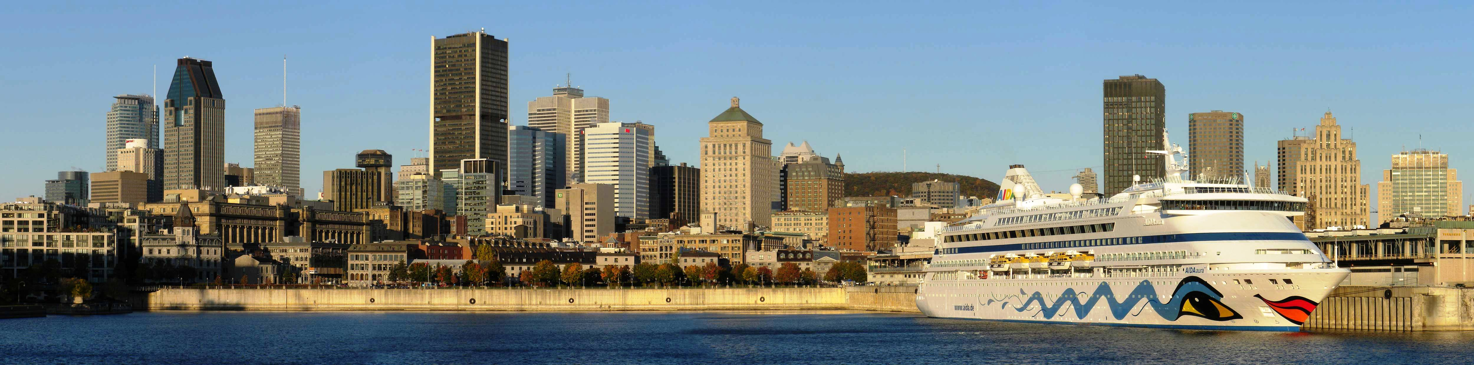 Montreal, Province of Quebec, panoramic view of downtown and the Old Port. Docked at the Iberville Terminal is AIDAaura cruise ship.